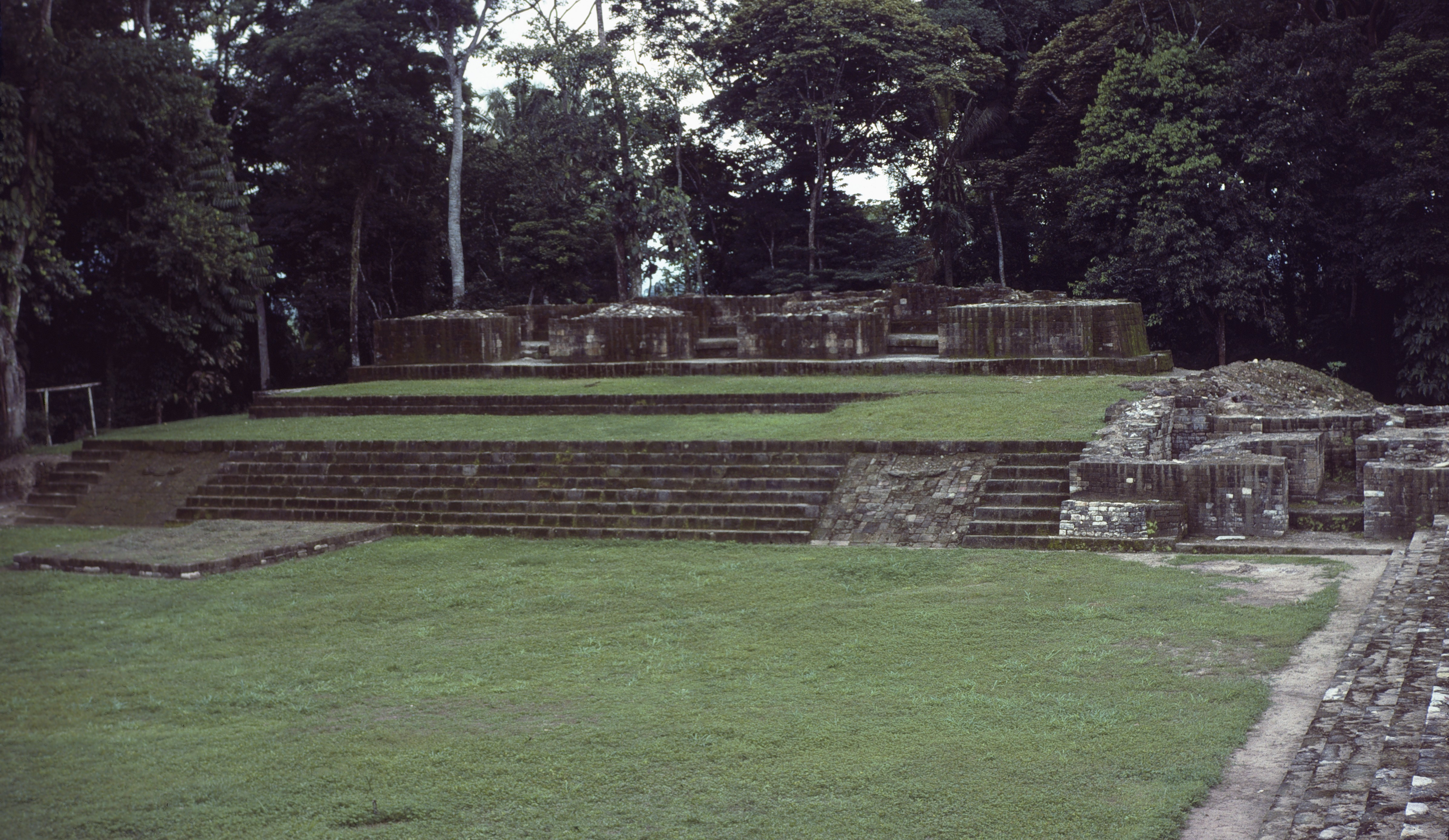 Quirigua, Guatemala: strcuture 1B-1